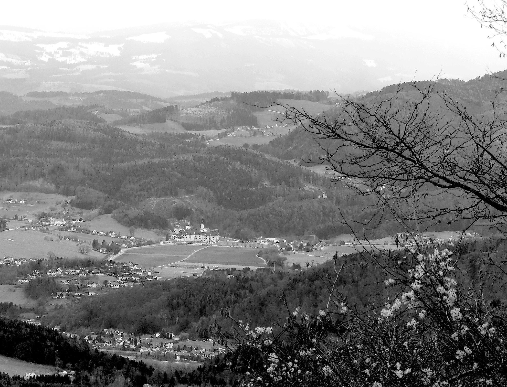 Blick von Osten